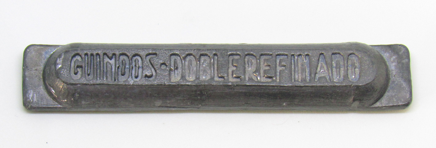 Small lead ingot, distributed as a sample (or as an advertising paperweight) of the Los Guindos Company, Linares, Jaén (Spain). Length, 11 cm Collection and photo, M. Calvo